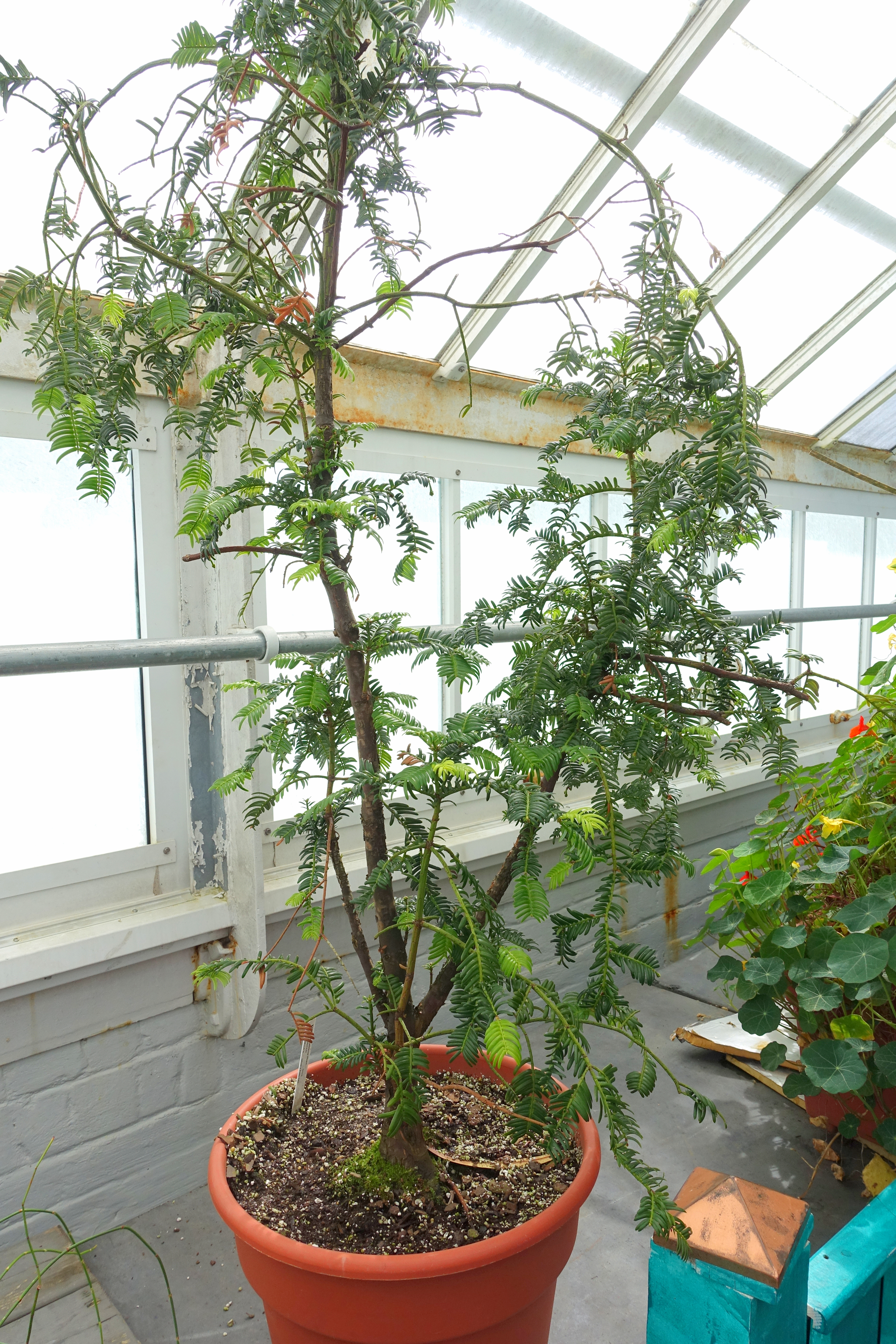 Botanical specimen in the Lyman Plant House, Smith College, Northampton, Massachusetts, USA.